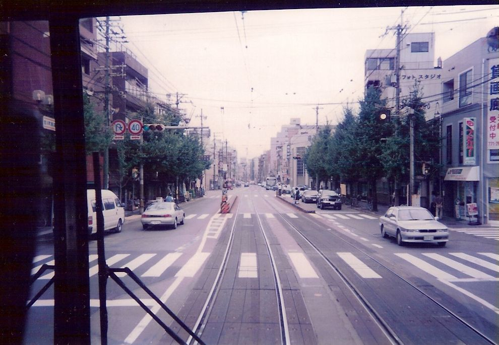 This was Keihan Keishin Line Higashiyama-Sanjo Station. This was taken in 1997/09.